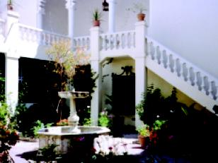 American Legation, now the Tangier American Legation Museum, in the old medina of Tangier, Morocco. Interior view of courtyard.